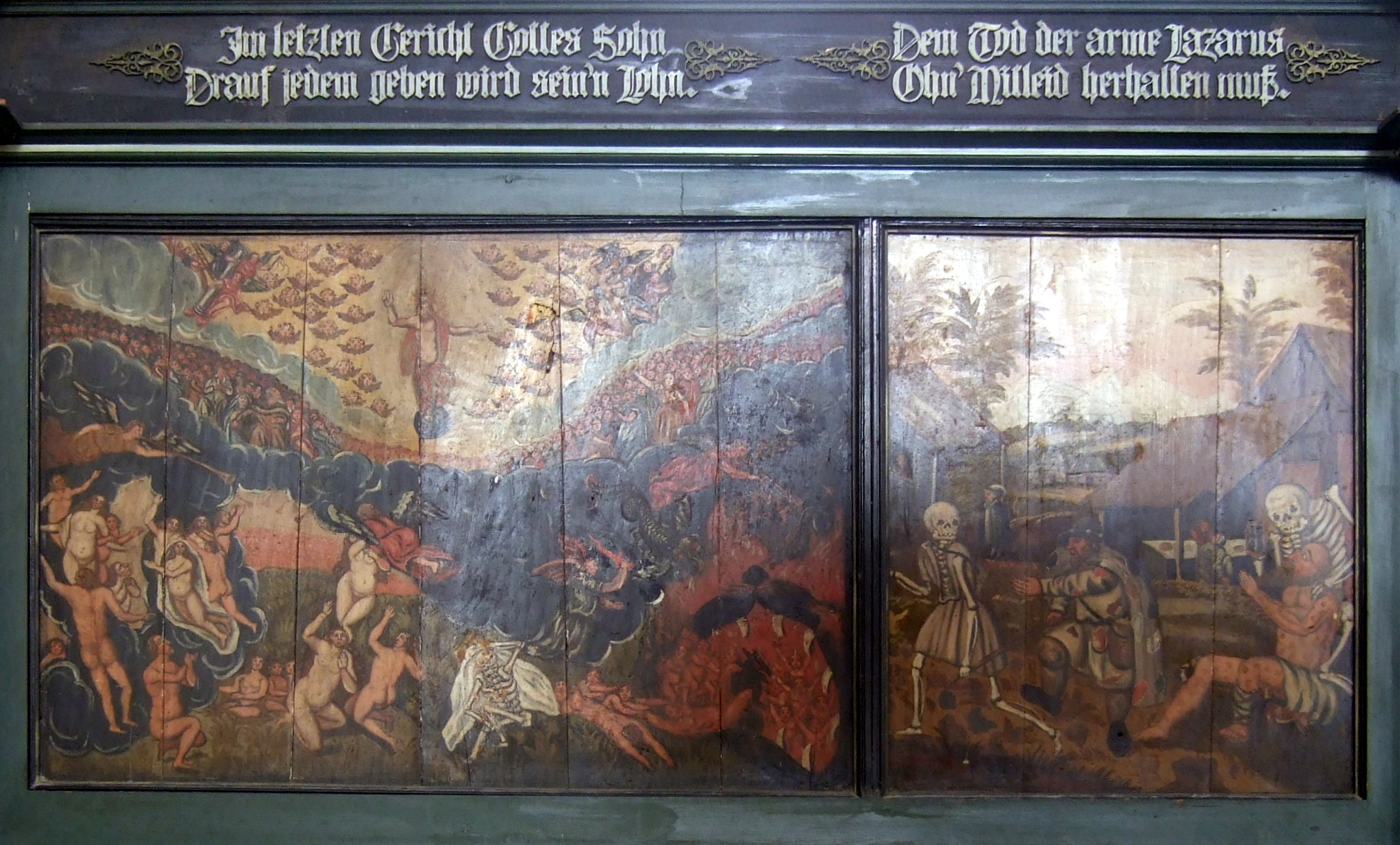 Totentanz-Gemälde in der Petrikirche, D-17438 Wolgast, Germany. Lazarus - Gericht.